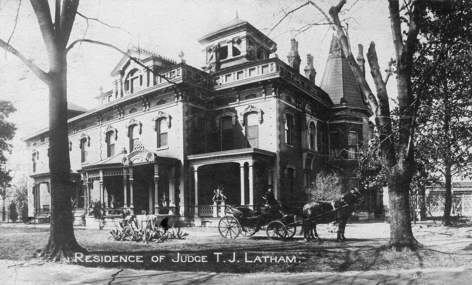 1910 postcard of the Memphis, Tennessee house of Judge Thomas Jefferson Latham (1831-1911)